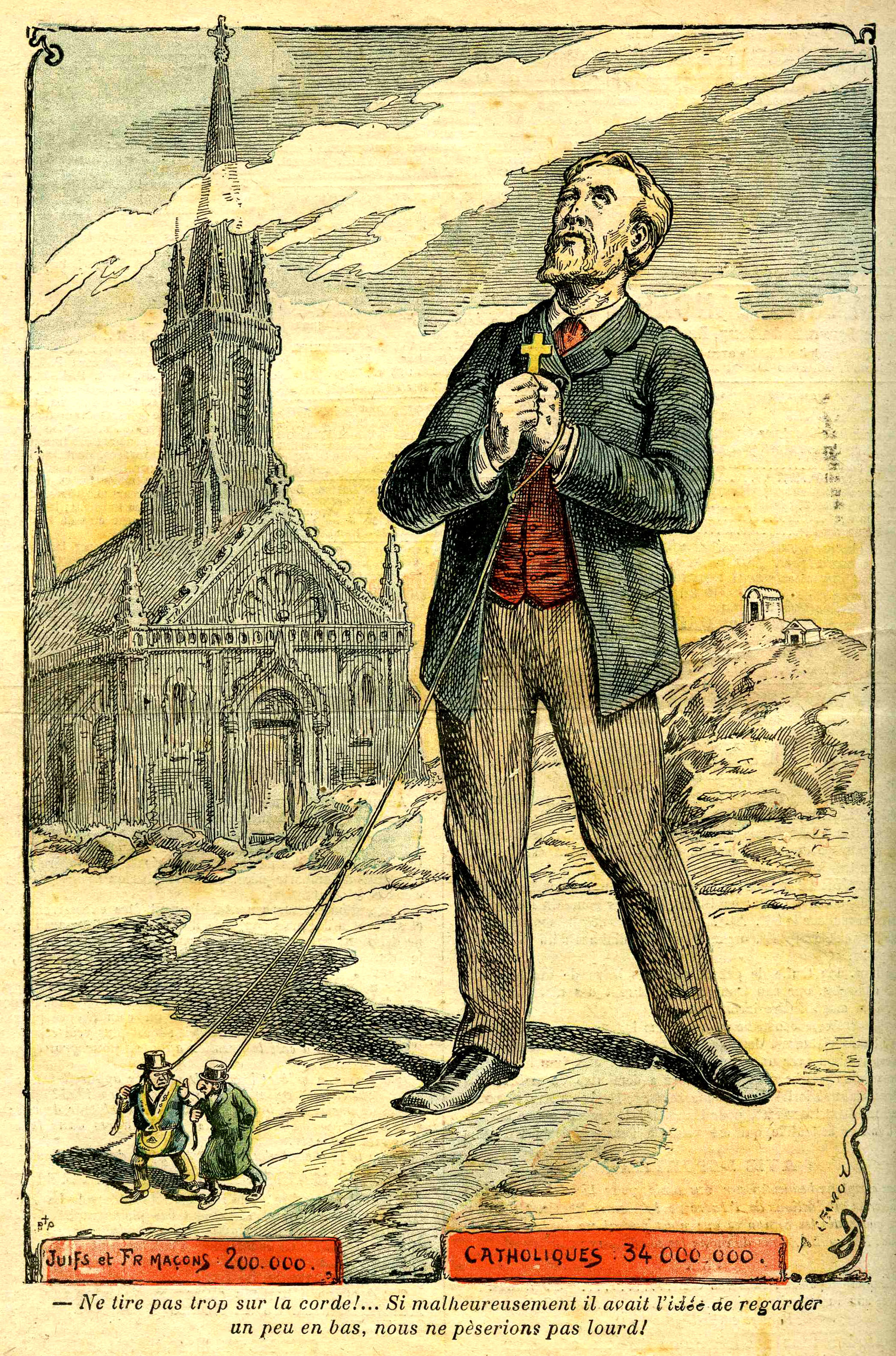 Caricature by French illustrator Achille Lemot